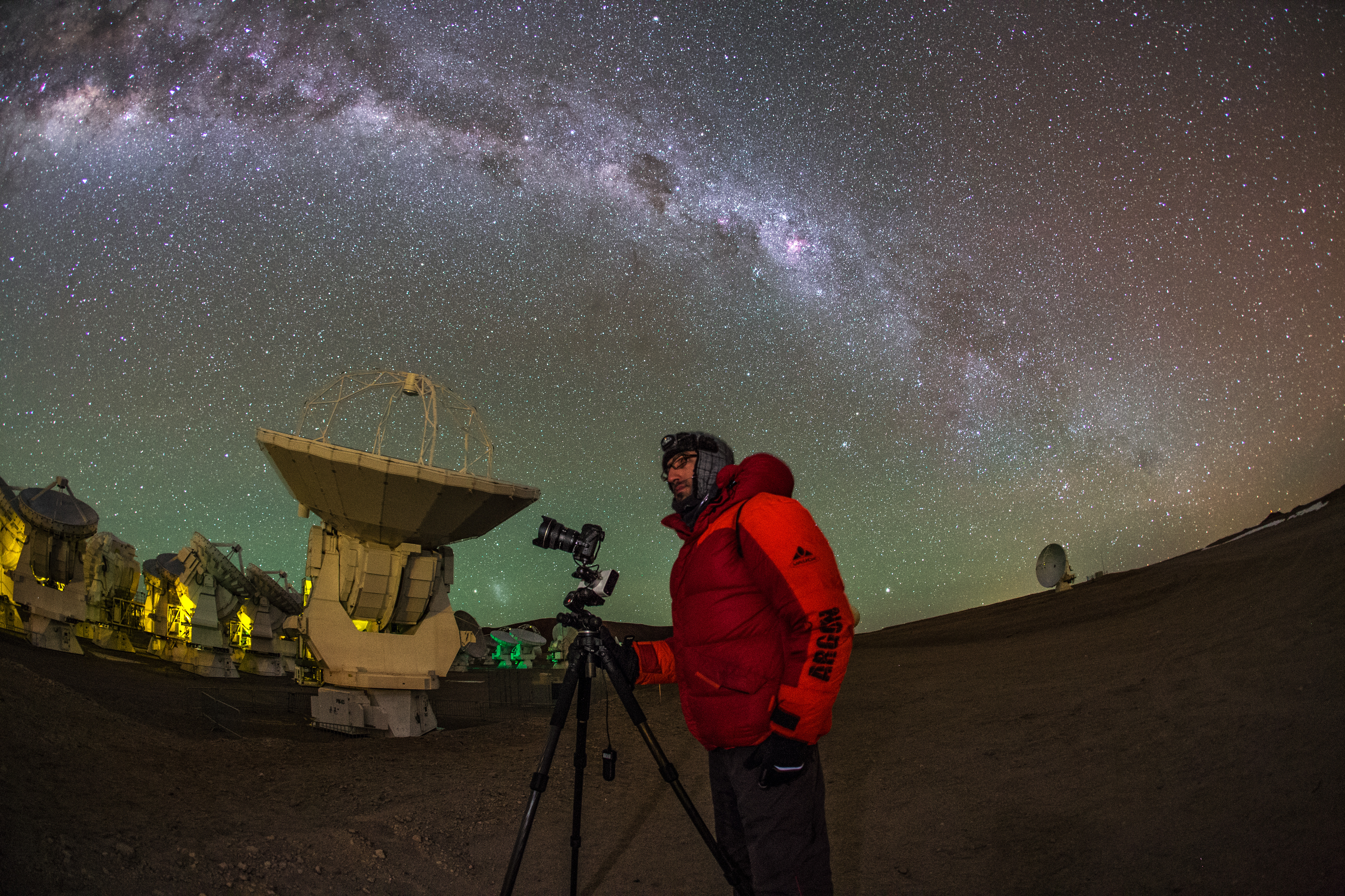 High on the Chajnantor Plateau, some 5000 metres above sea level it can get extremely cold at the site of the Atacama Large Millimeter/submillimeter Array (ALMA). Babak Tafreshi, one of ESO's Photo Ambassadors and part of the ESO Ultra HD Expedition team is shown here capturing the cool cosmos.